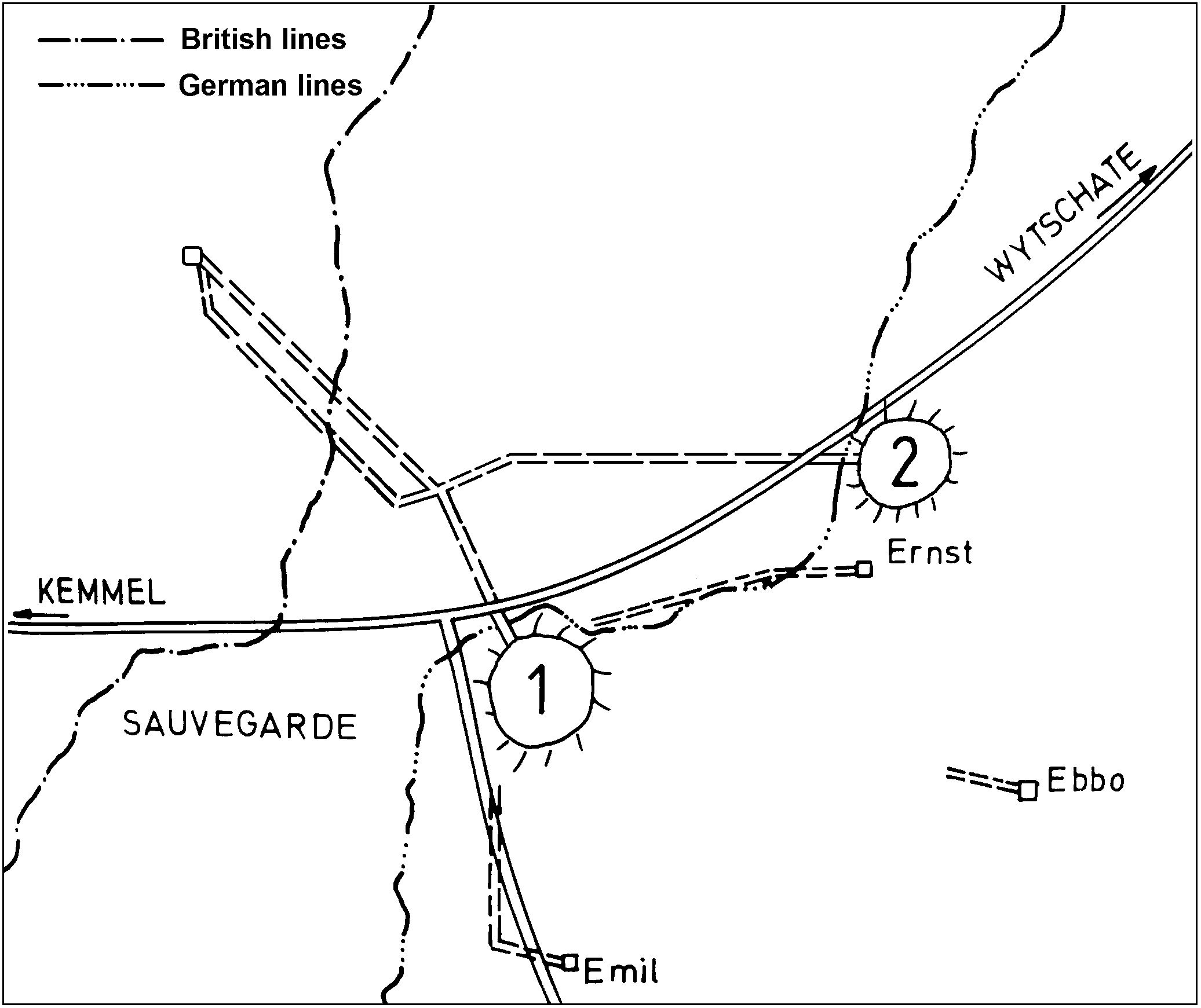 Plan of the mine at Peckham, part of the mines placed by the tunnelling companies of the Royal Engineers in the Battle of Messines (1917). This drawing is based on the plans published in Roger Lampaert, De Mijnenoorlog in Vlaanderen 1914–1918, Roesbrugge/Belgium (Drukkerij Schoonaert) 1989 and Peter Barton/Peter Doyle/Johan Vandewalle, Beneath Flanders Fields: The Tunnellers' War 1914-1918, Staplehurst (Spellmount) 2005. Of the two mines, only Peckham 1 was eventually fired in the Battle of Messines; the Peckham 2 mine was completed but had to be abandoned before the battle after the tunnel flooded.